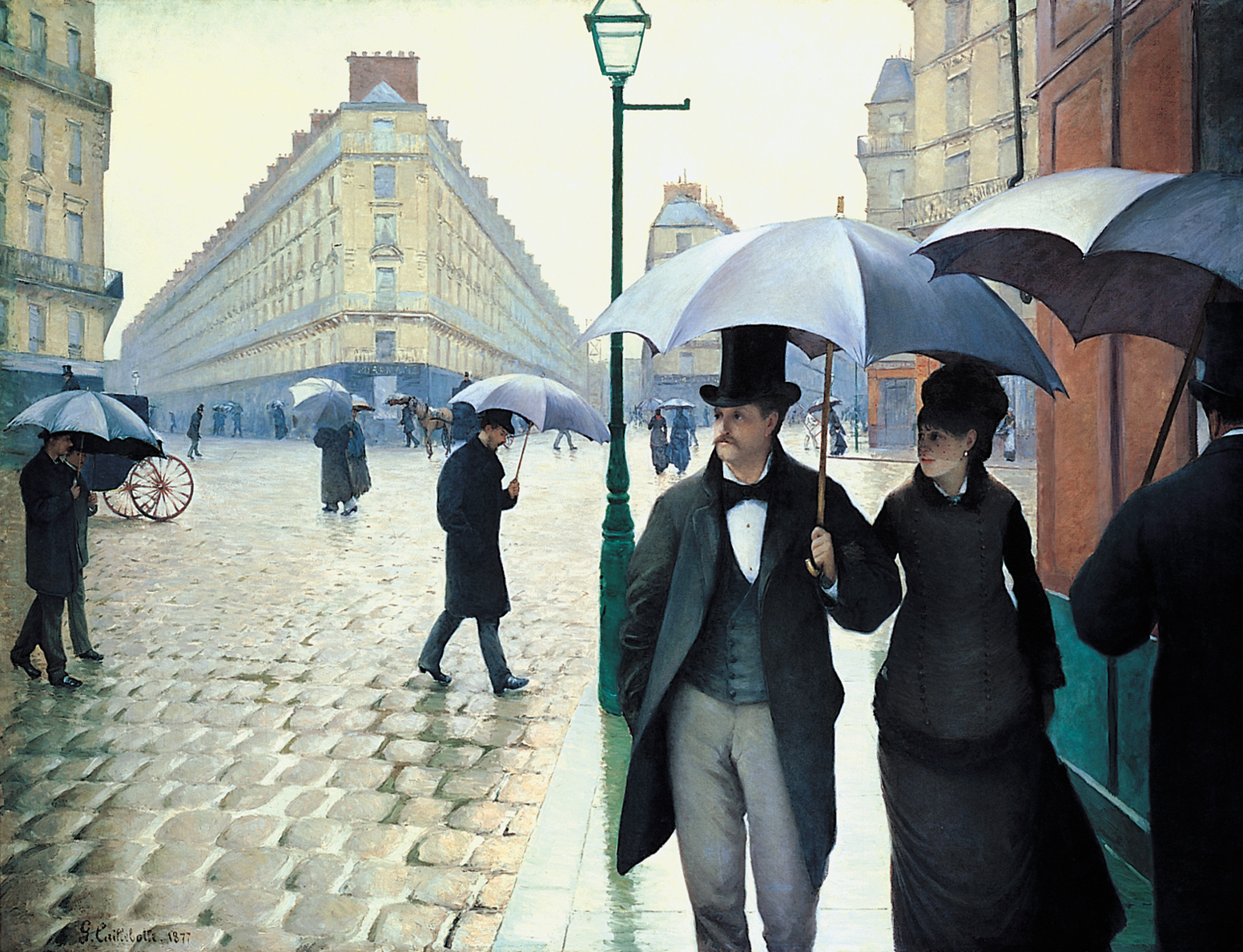 Rue de Paris, temps de pluie